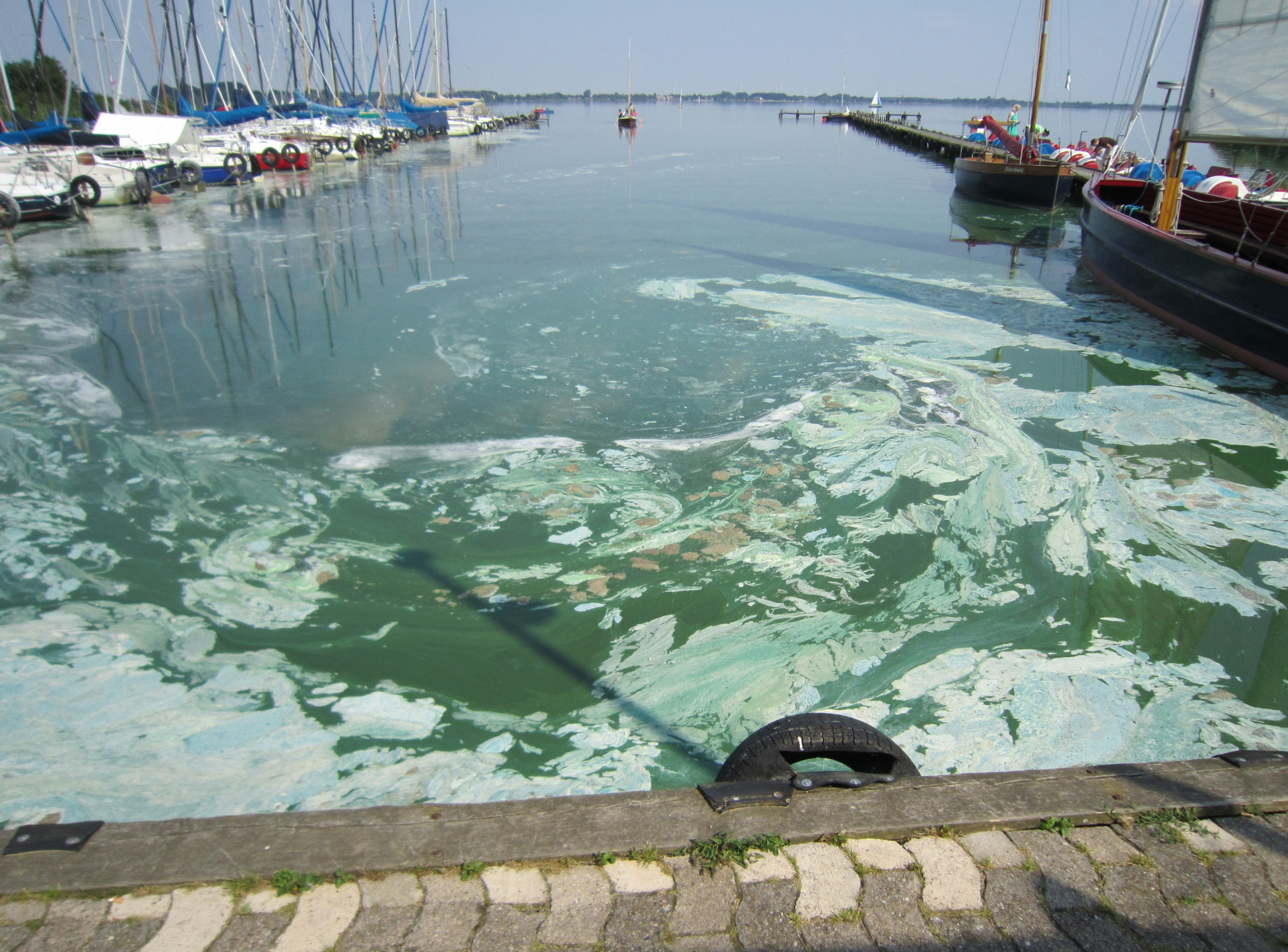 Algal bloom in Lake Duemmer (Lower Saxony)